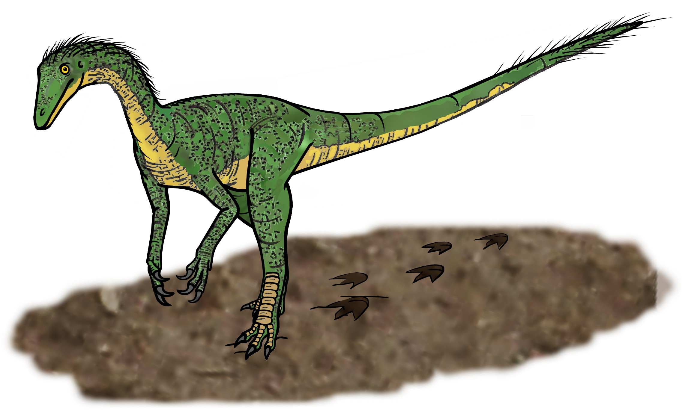 Tawa hallae, a primitive dinosaur from New mexico, North america. Described and published in 2009, this early theropod has helped scientists to understand the taxonomy of early theropods. Tawa was similar to Coelophysis, but with olnger forelimbs. Note: this illustration is maybe a bit inaccurate. The hindlegs could be shorter, and the head could be larger. The illustration is based on information from National Science Foundation, and a skeleton illustration at